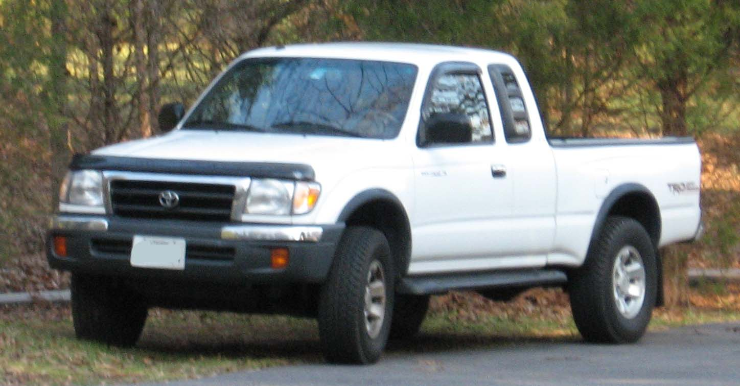 1998-2000 Toyota Tacoma photographed in USA.